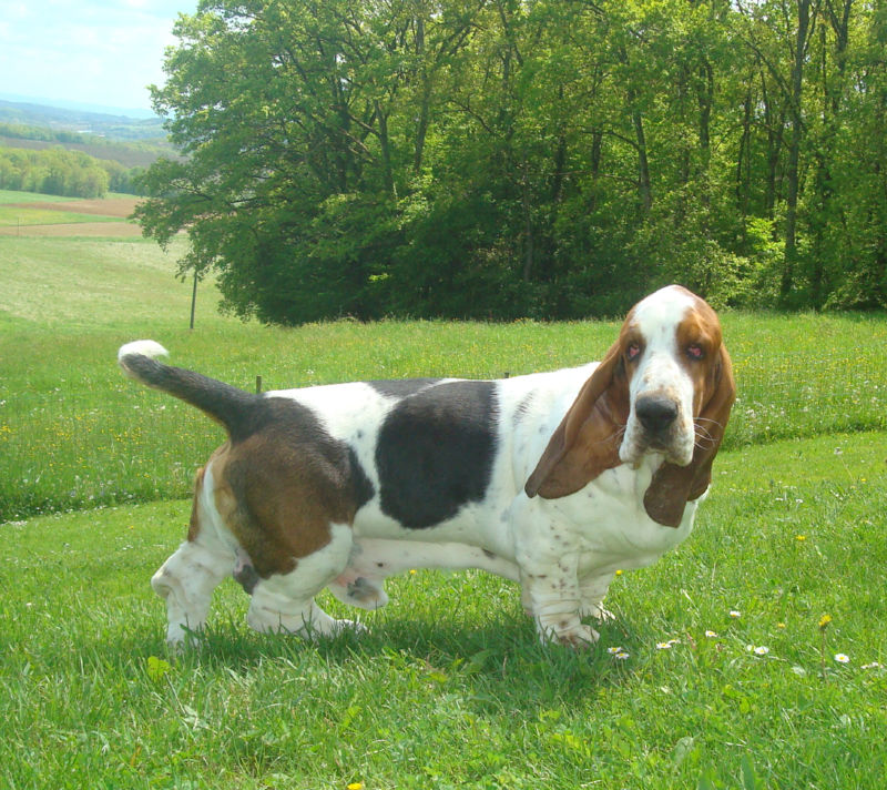 DomTom MacDouglas du clos Dominant, 13 months .